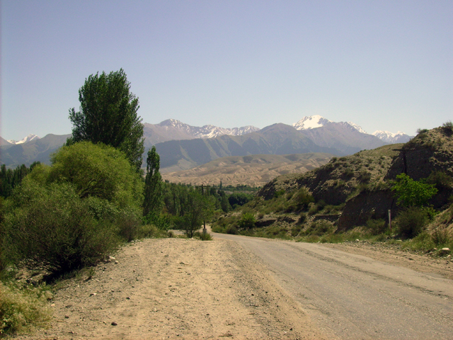 Terskey Ala-Too. Tamga health resort